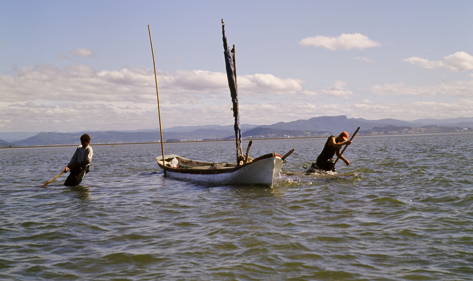 extrativism1